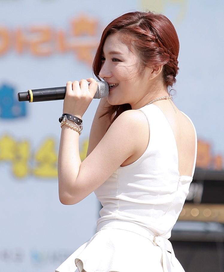 DIA (Lee Ji-eun) from Bella at the Incheon Festival, May 2013